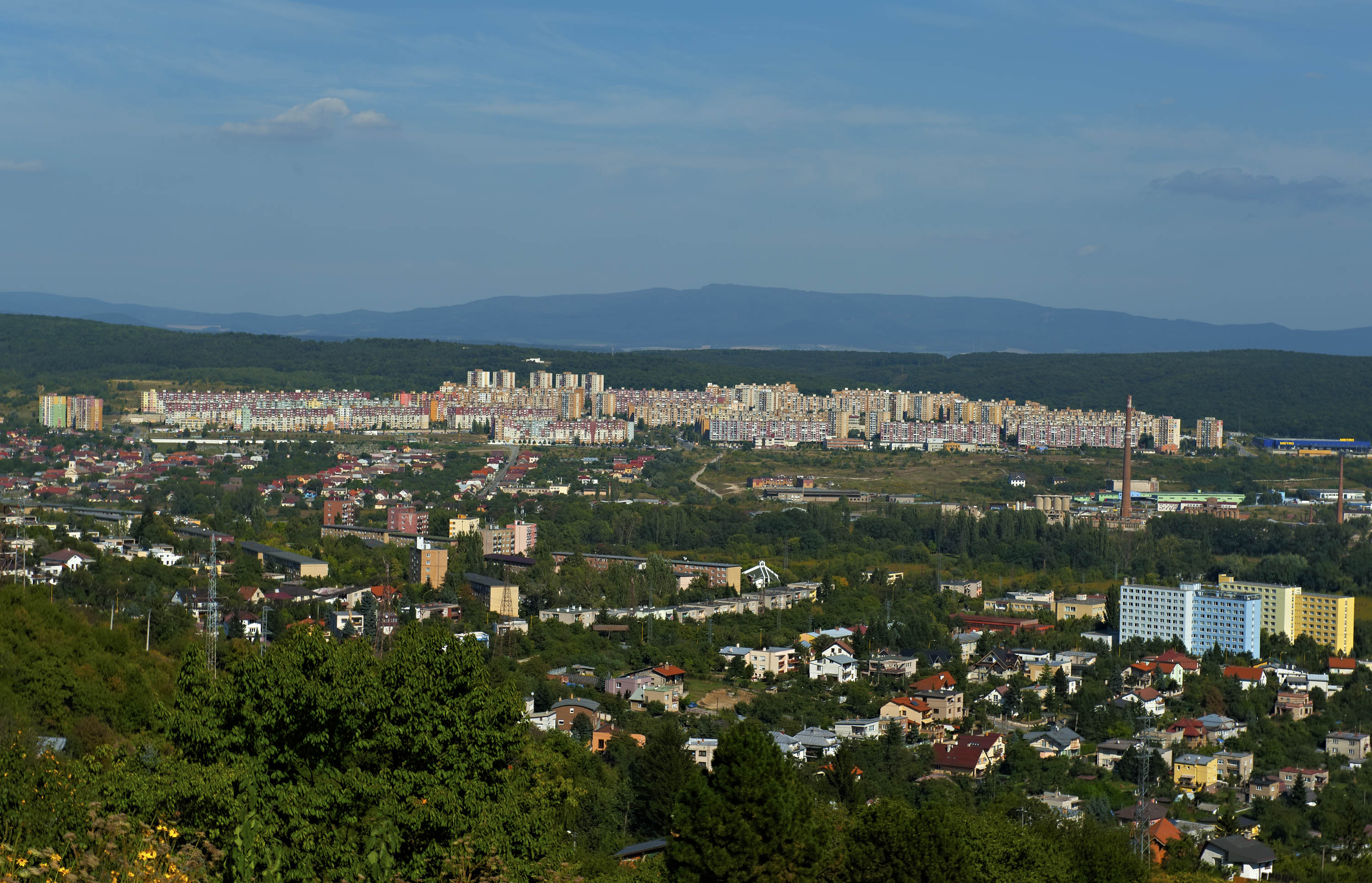 Sidlisko Tahanovce, a view from Cerveny breh